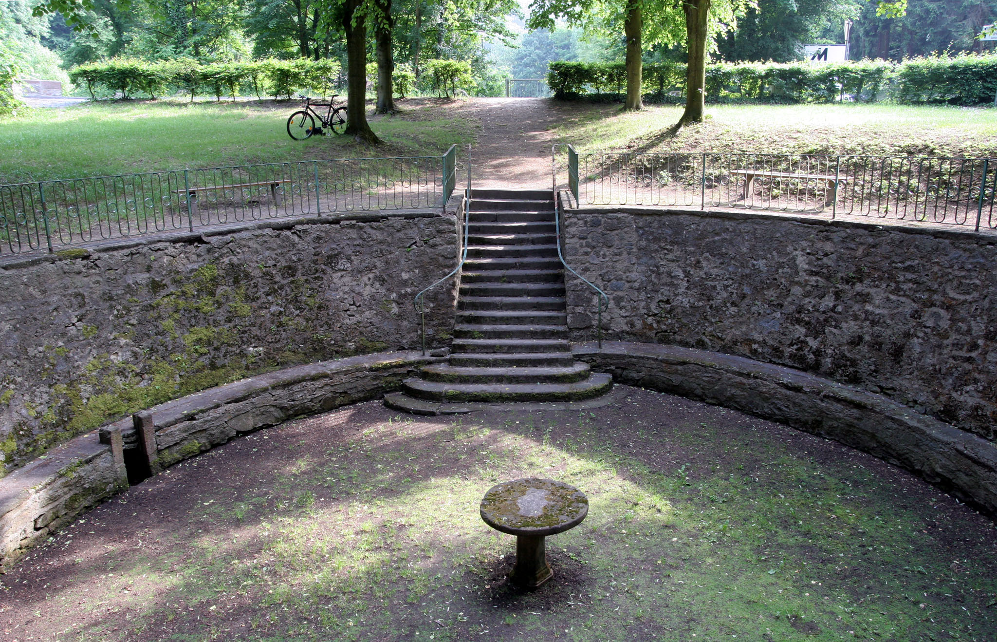 The Goethebrunnen (Goethe Well) in Bensheim-Auerbach (Hesse)